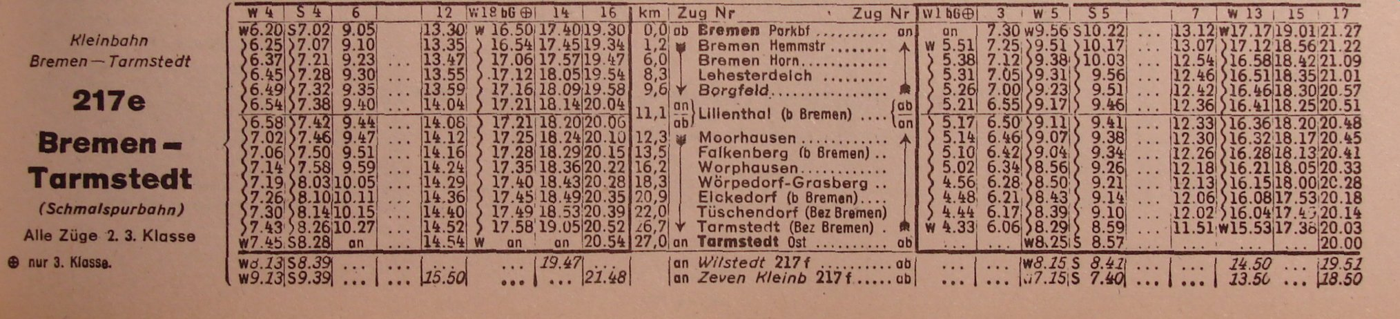 Timetable Bremen-Tarmstedt Railroad(called Jan Reiners) 1944